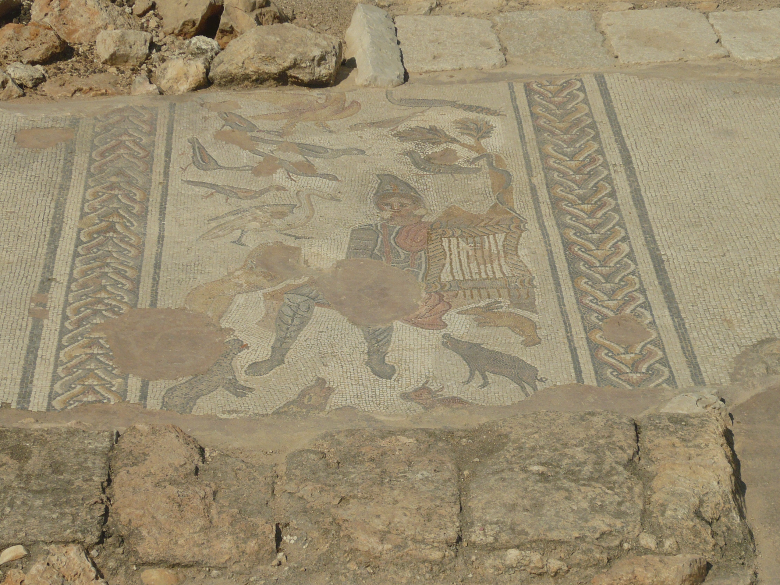 a mosaic in tzippori showing orpheus אורפיאוס מקסים את החיות בנגינתו, פסיפס מעתיקות ציפורי